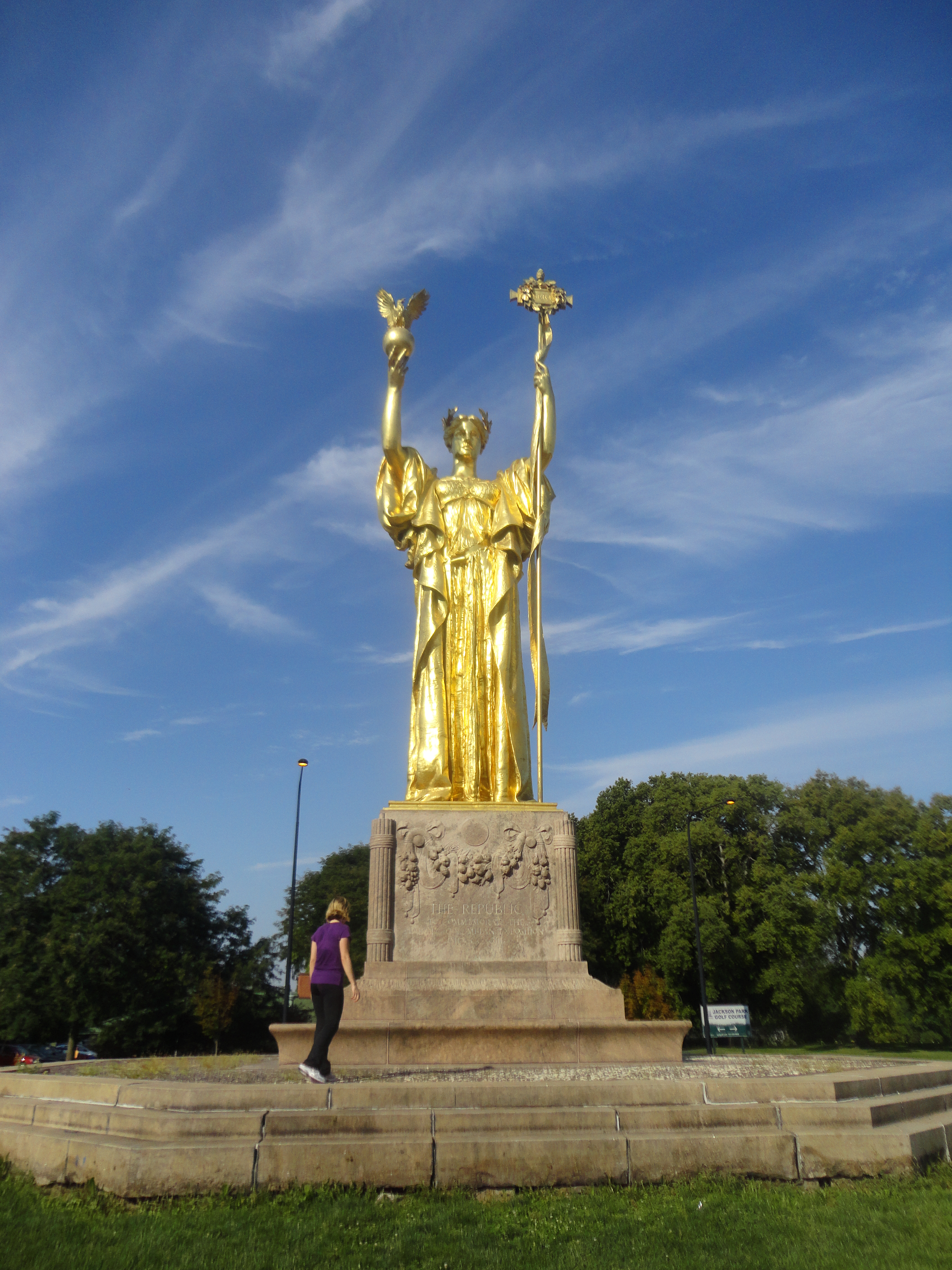 The original statue was placed on a 30 foot tall pedestal in the lagoon near wooded island.